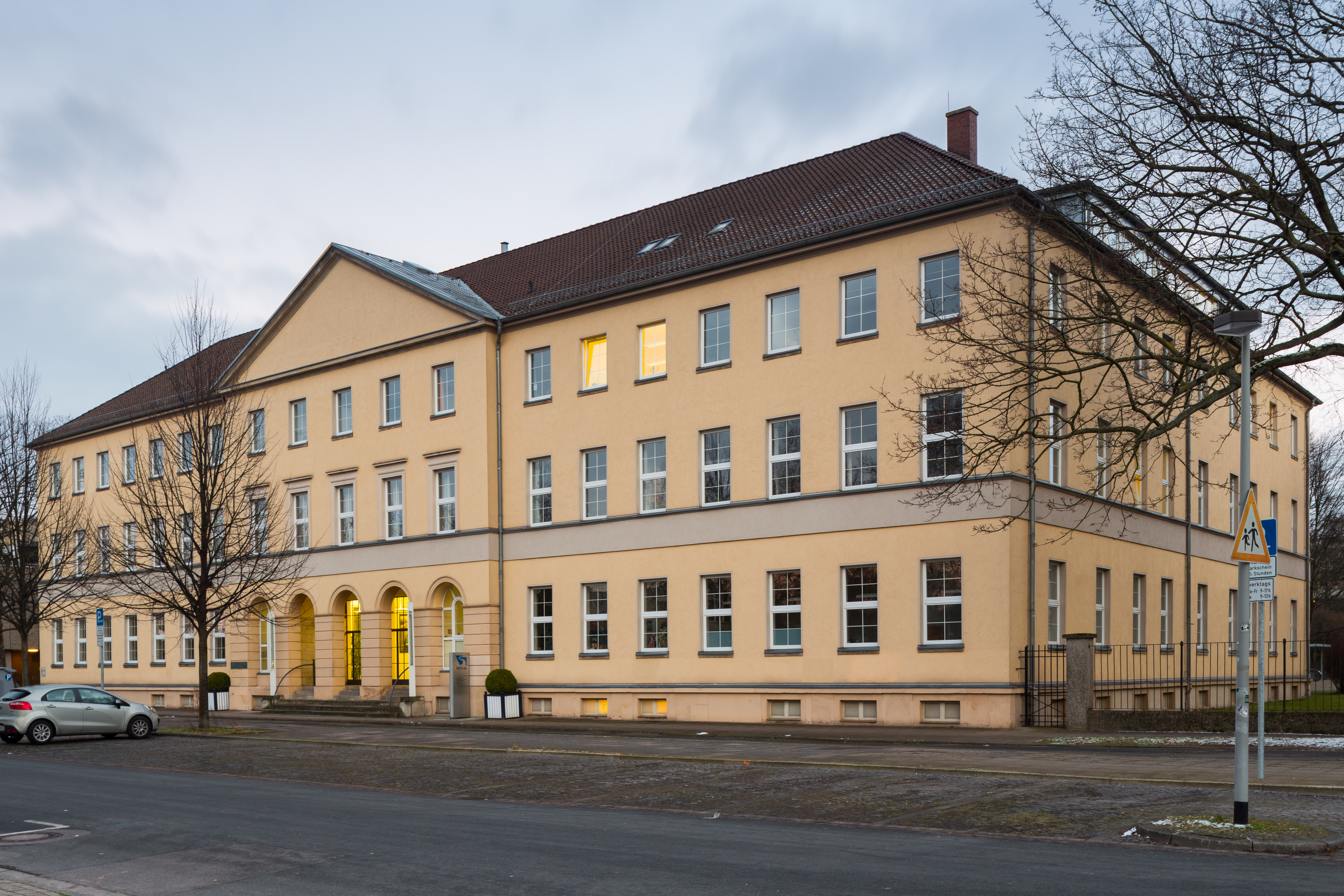 Former infantery building located at Am Schuetzenplatz no. 1 in Calenberger Neustadt, Mitte district of Hanover, Germany.